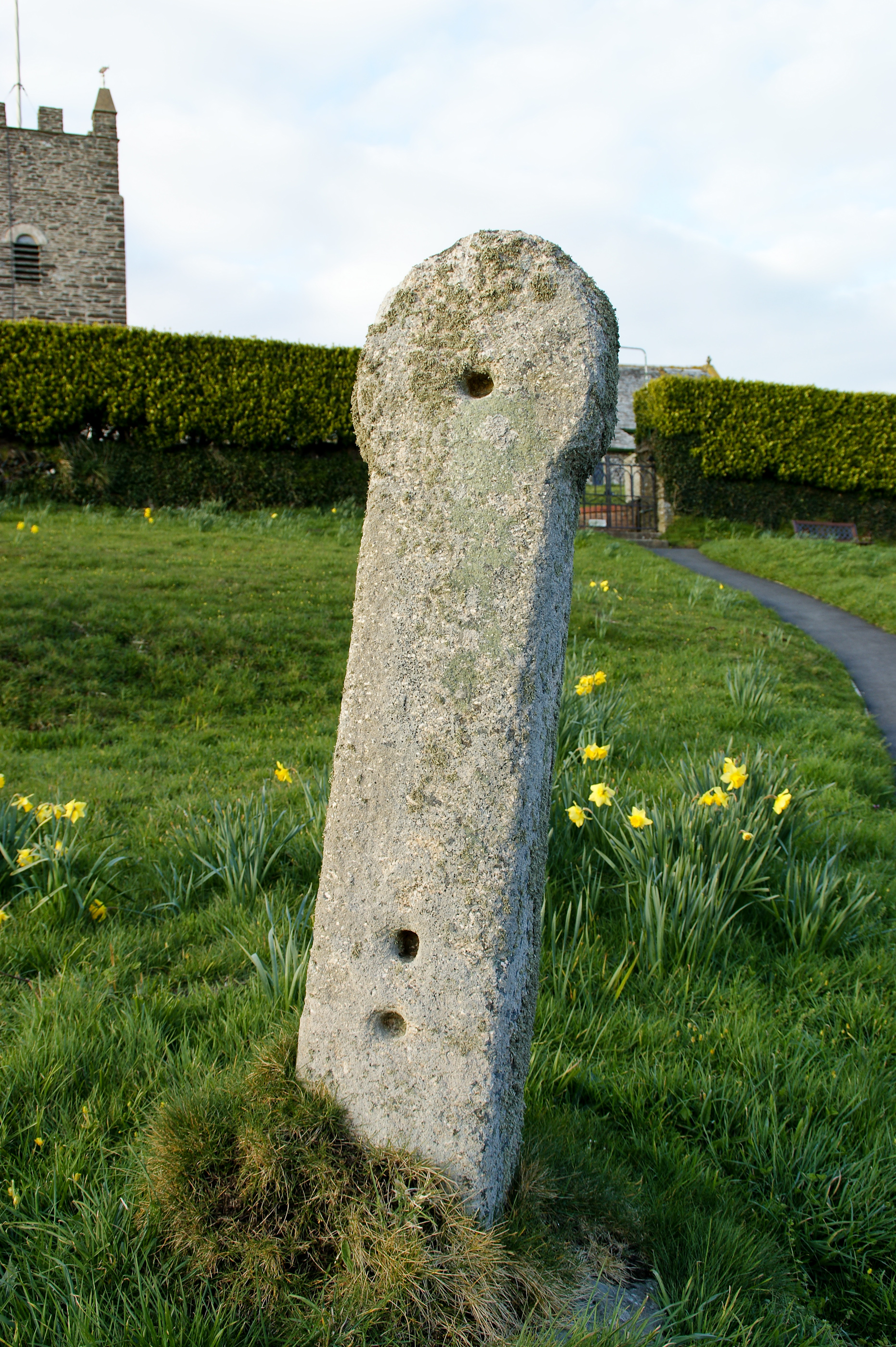 Ancient simple cross at Forrabury Church, Boscastle, Cornwall. (& it is that tilted!).